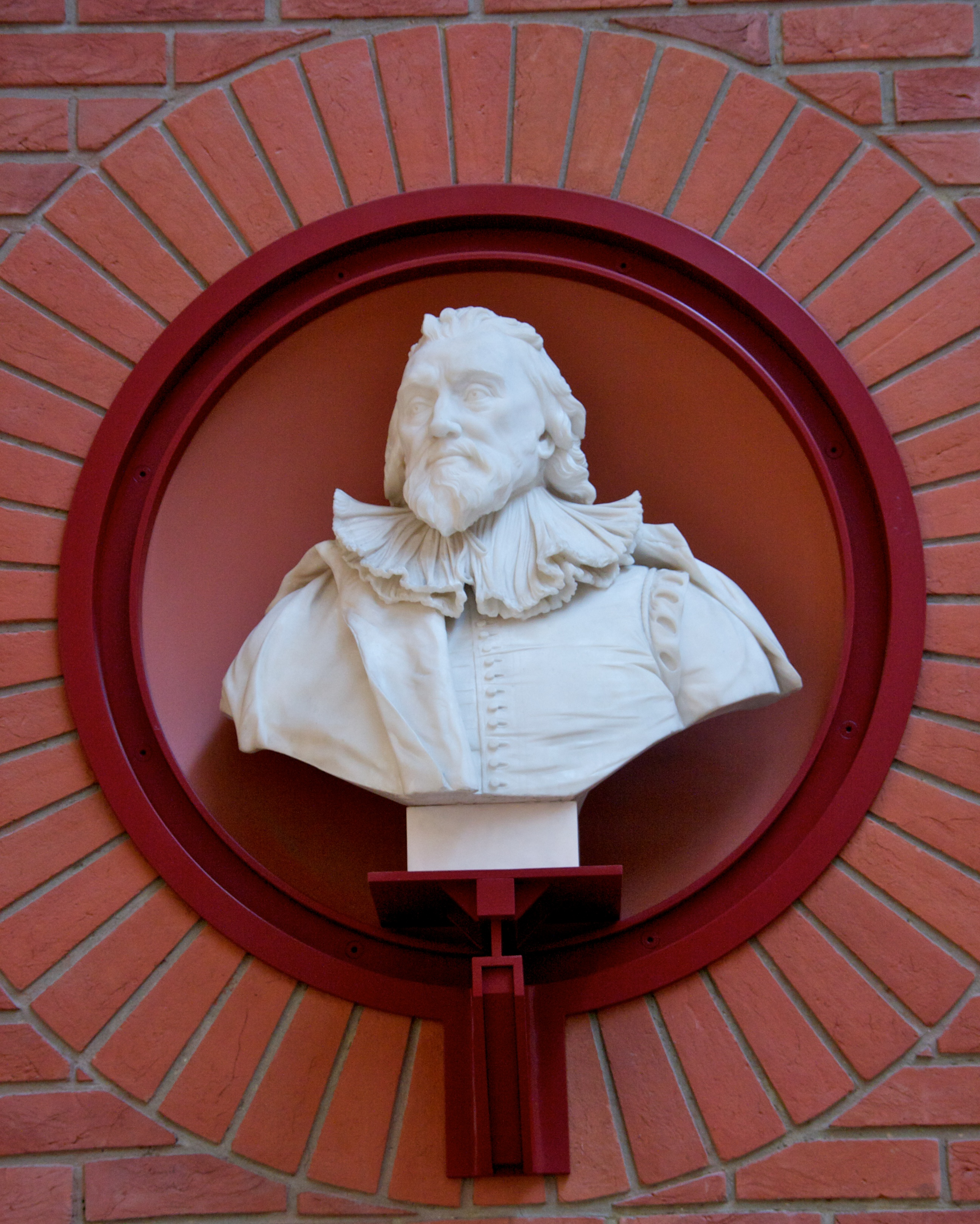 Sir Robert Cotton 1571-1631, Louis Boubiliac . Bust on display in the British Library. Taken during the wmuk:Editathon, British Library.